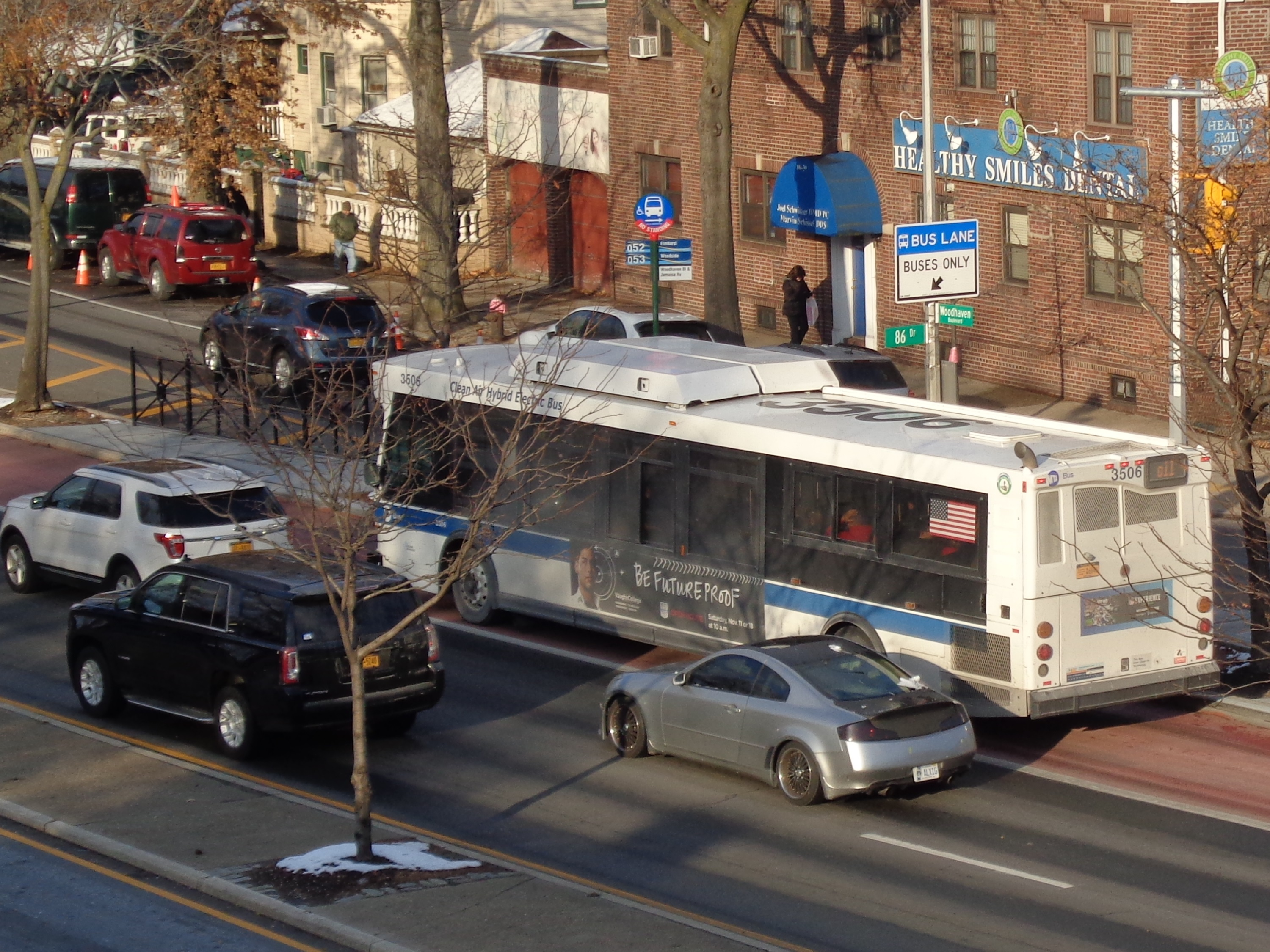 Looking north at Woodhaven Boulevard from the Woodhaven Boulevard BMT Jamaica Line station, above Jamaica Avenue in Woodhaven, Queens. Pictured is a Queens Center-bound Q11 bus.